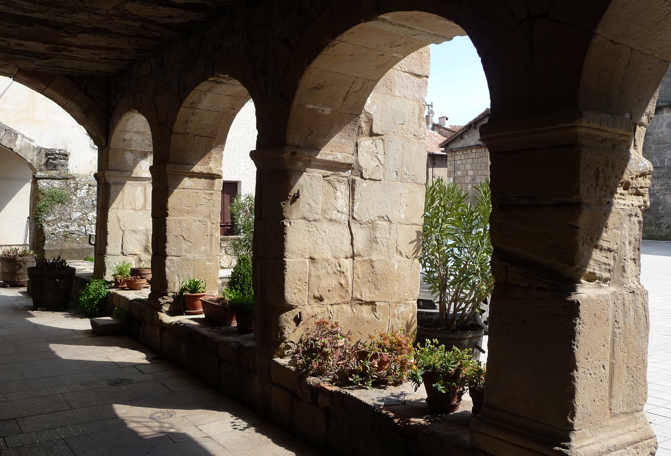 old Benedictine cloister of Joncels